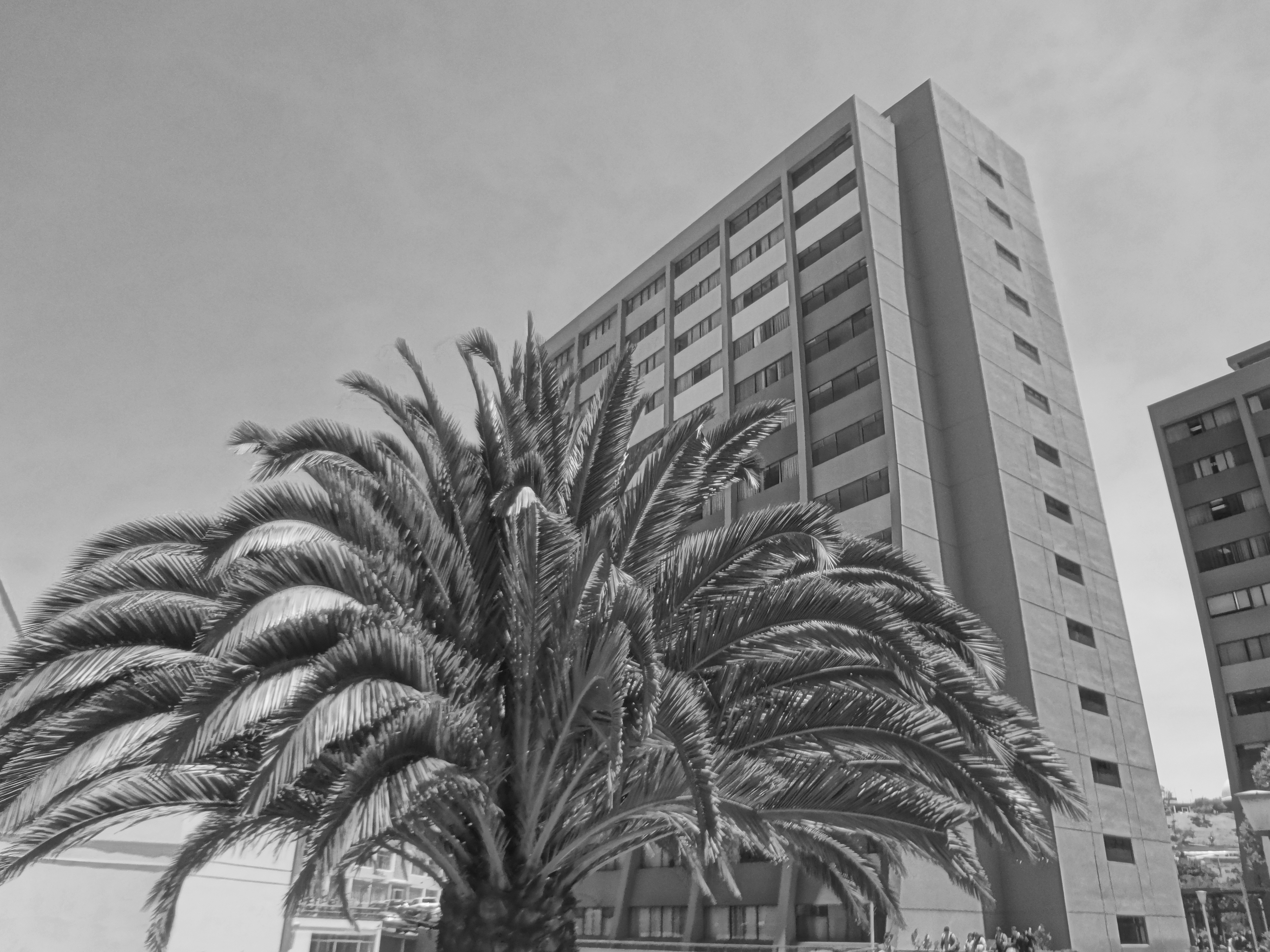 Catholica, Ecuador PUCE - Quito Photographed by David Adam Kess